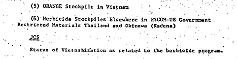 Herbicide Stockpile Kadena AFB